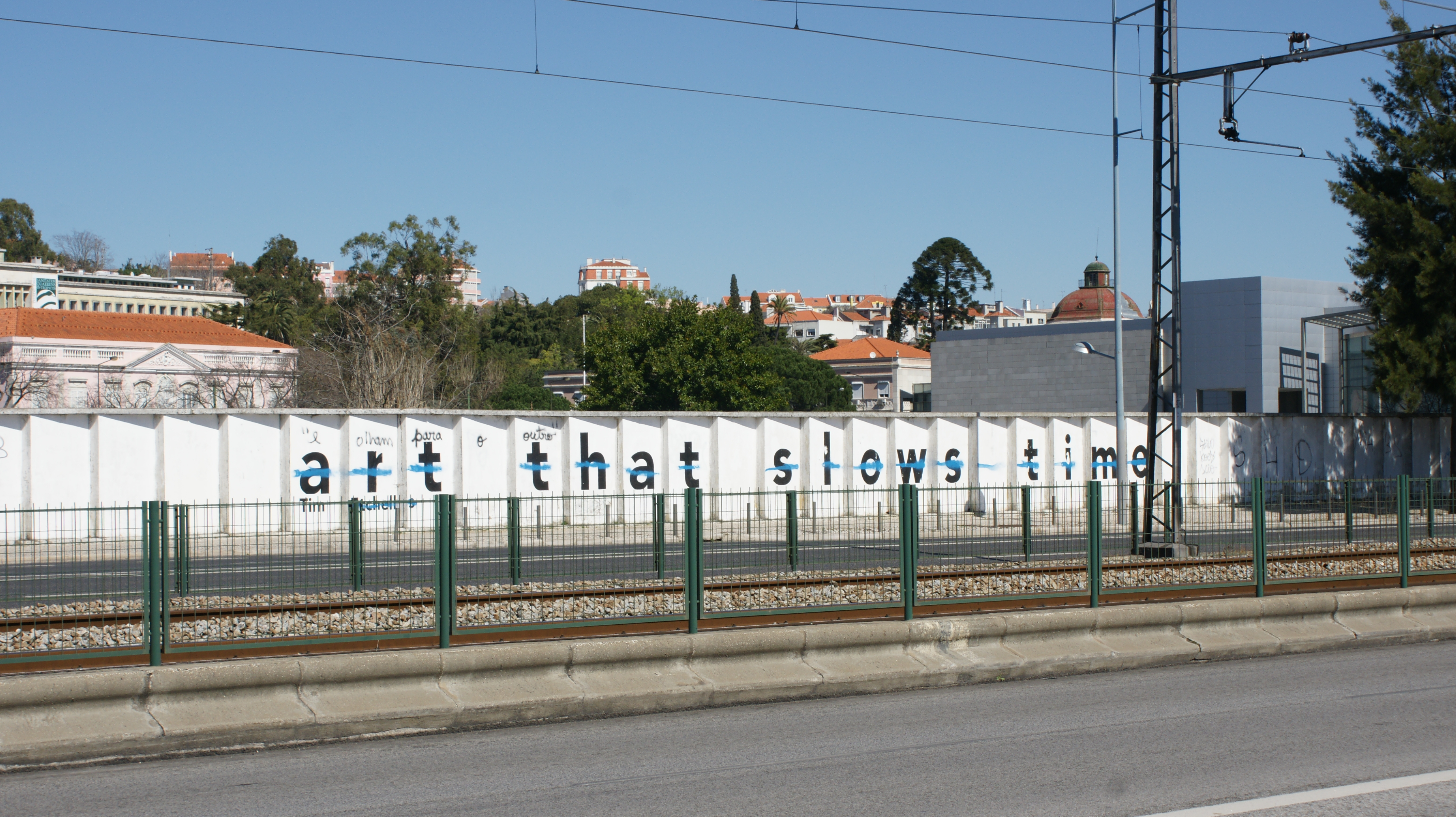 Art that slows time, by Lisbon biennial Artist in the City, Tim Etchells, with graffiti over.